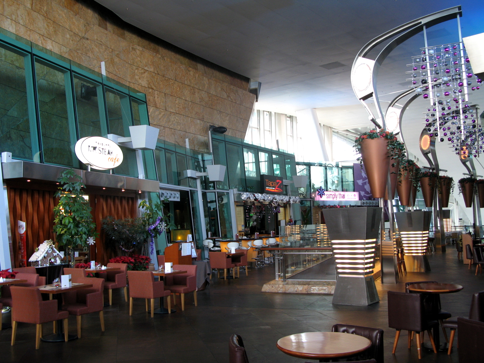 HK Langham Place The Ozone in Level 13